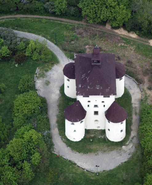 Banská Štiavnica, Slovakia, castle, aerial photography